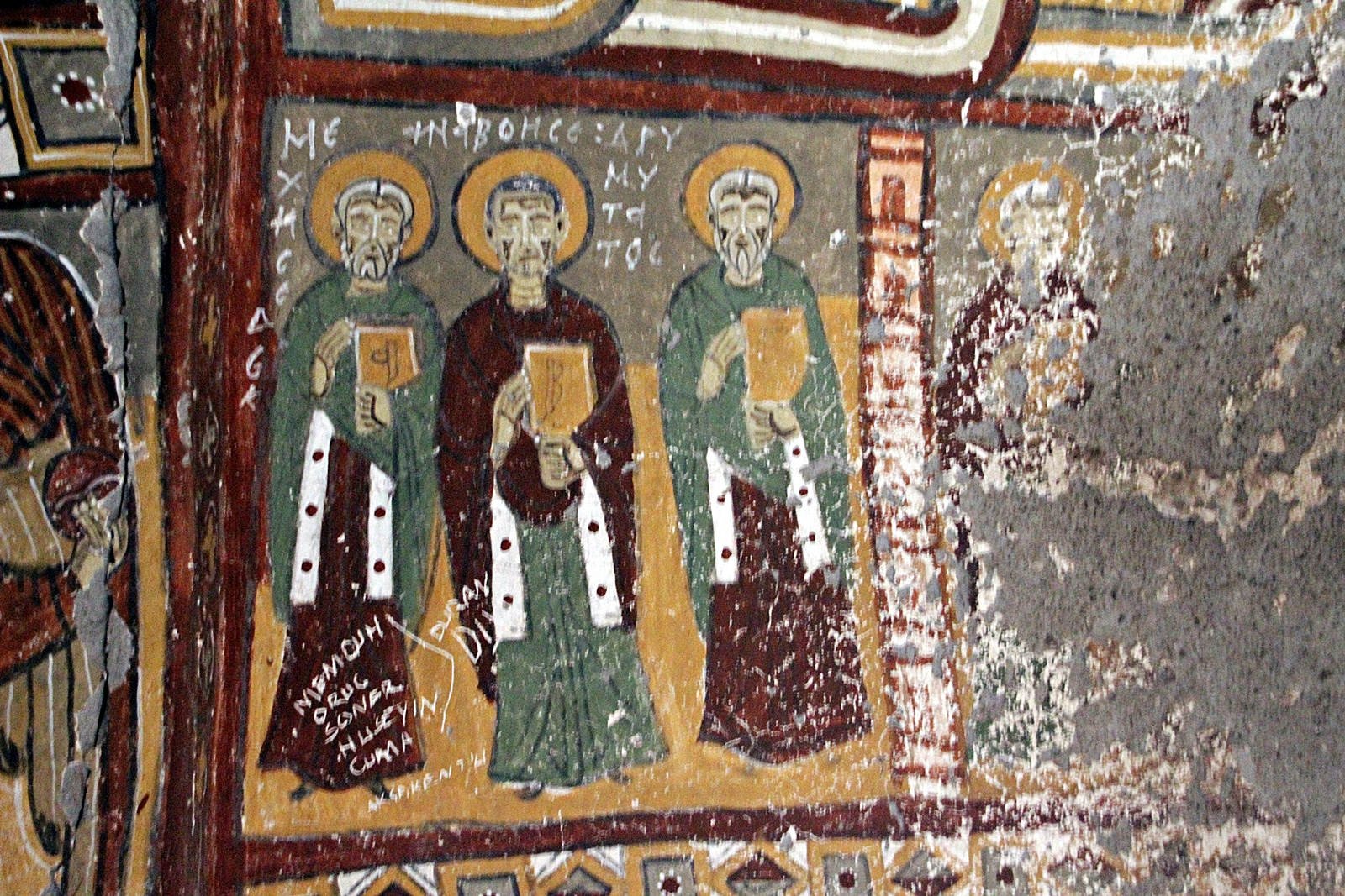 Turkey/Ihlara Valley/Yilanlli Church